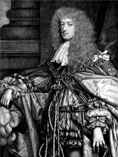 Portrait of Henry Somerset, 1st Duke of Beaufort